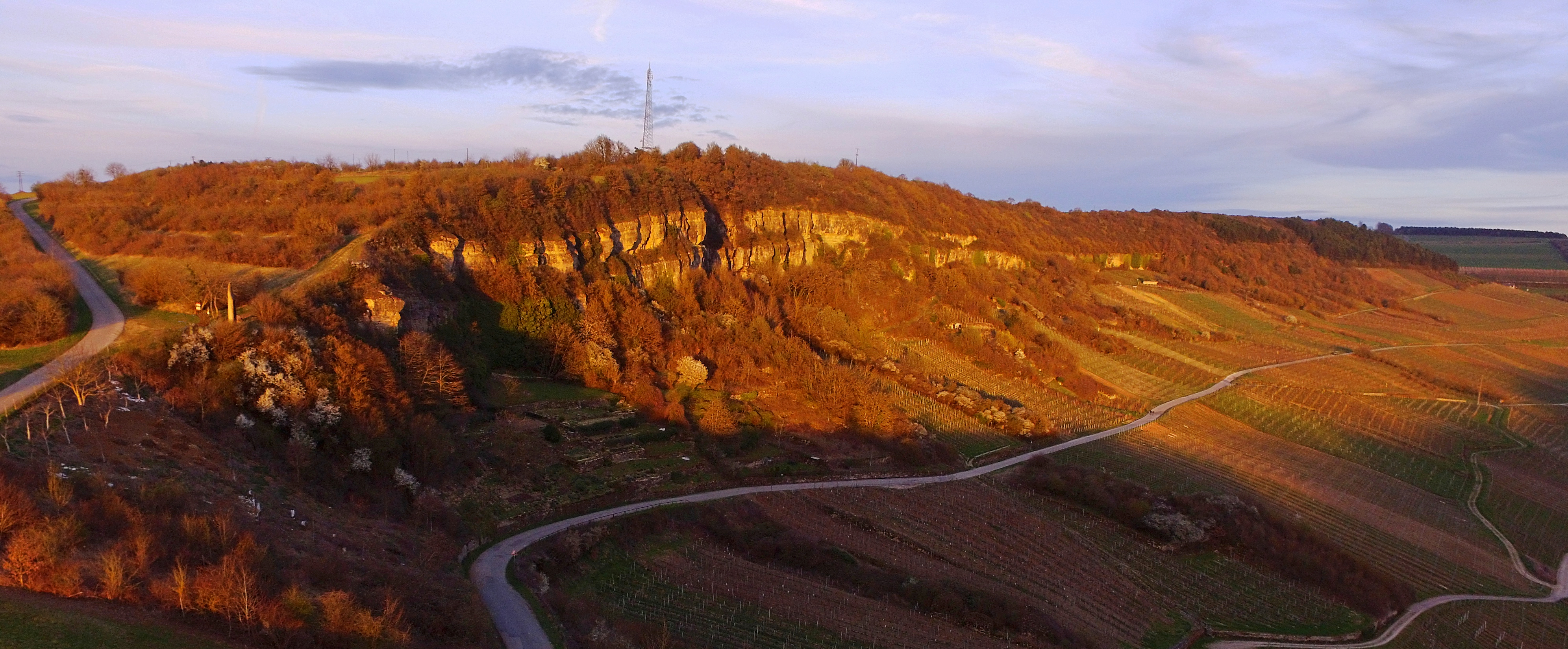 Nature preserve Nitteler Fels / Nittel, Moselle Germany Limestones and Orchids